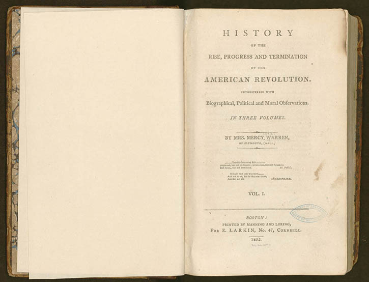 Author: Mercy Otis Warren